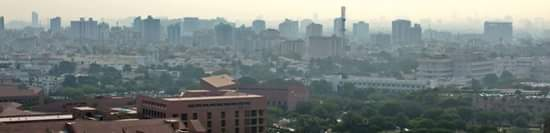 Karachi skyline